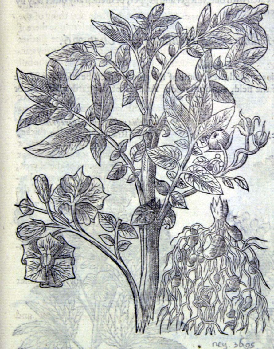 Virgina potato aus John Gerards Werk The Herball